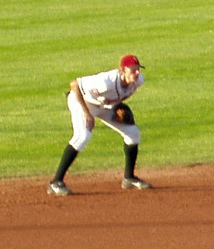 Baseball player Buck Coats, playing for the Lansing Lugnuts of the Midwest League. Cropped, sharpened, and adjusted the levels of the photographer's original version, to focus on Coats.